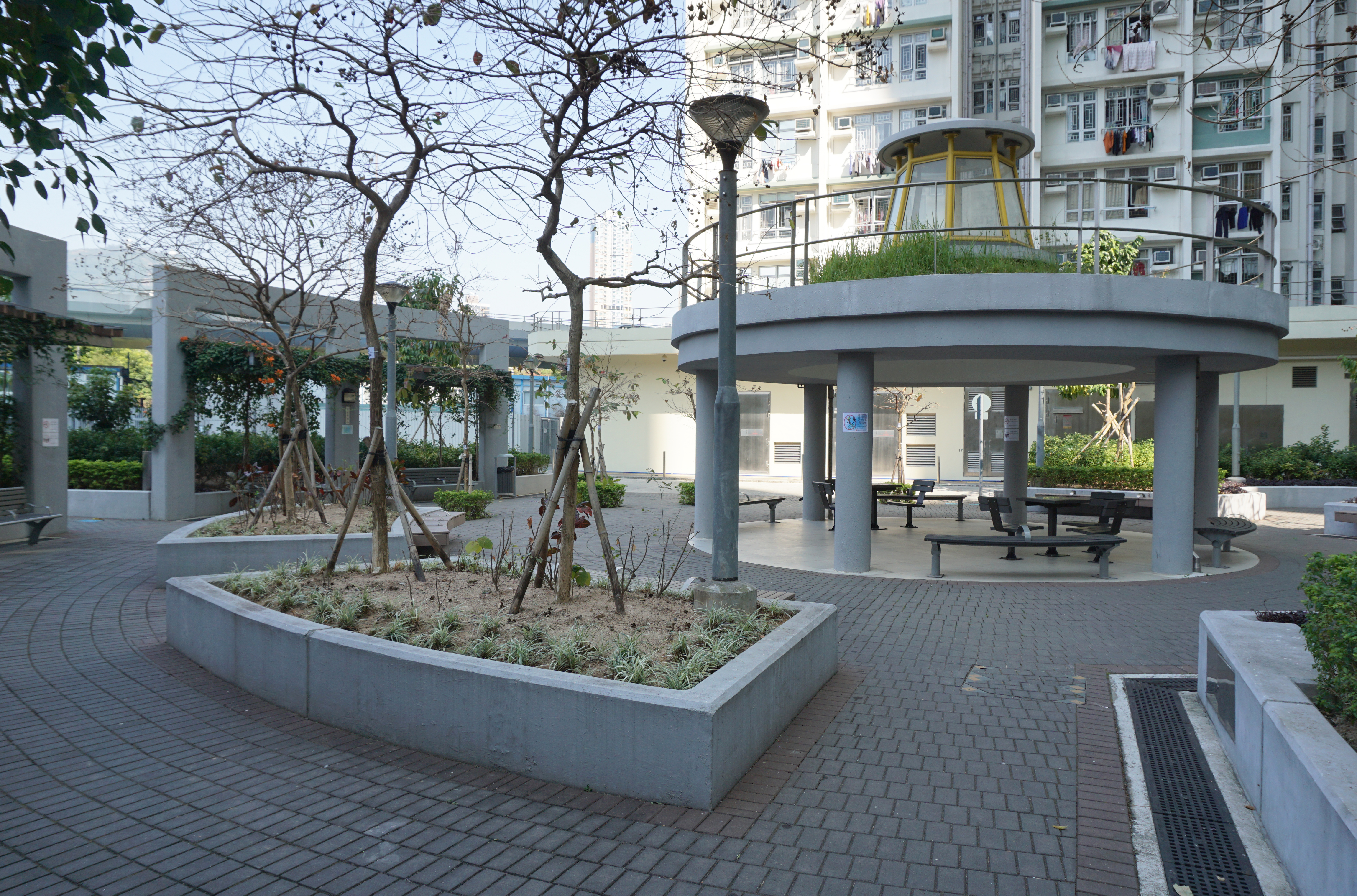 Wing Cheong Estate in Sham Shui Po, Hong Kong.